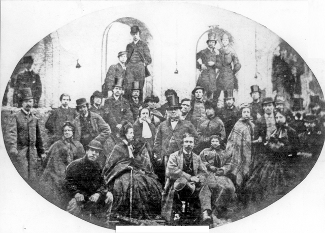 Thomas Youdan (in stovepipe hat) - proprietor of the Surrey Theatre, West Bar, and stage company, outside the shell of the theatre, the morning after the fire on 25 March 1865.